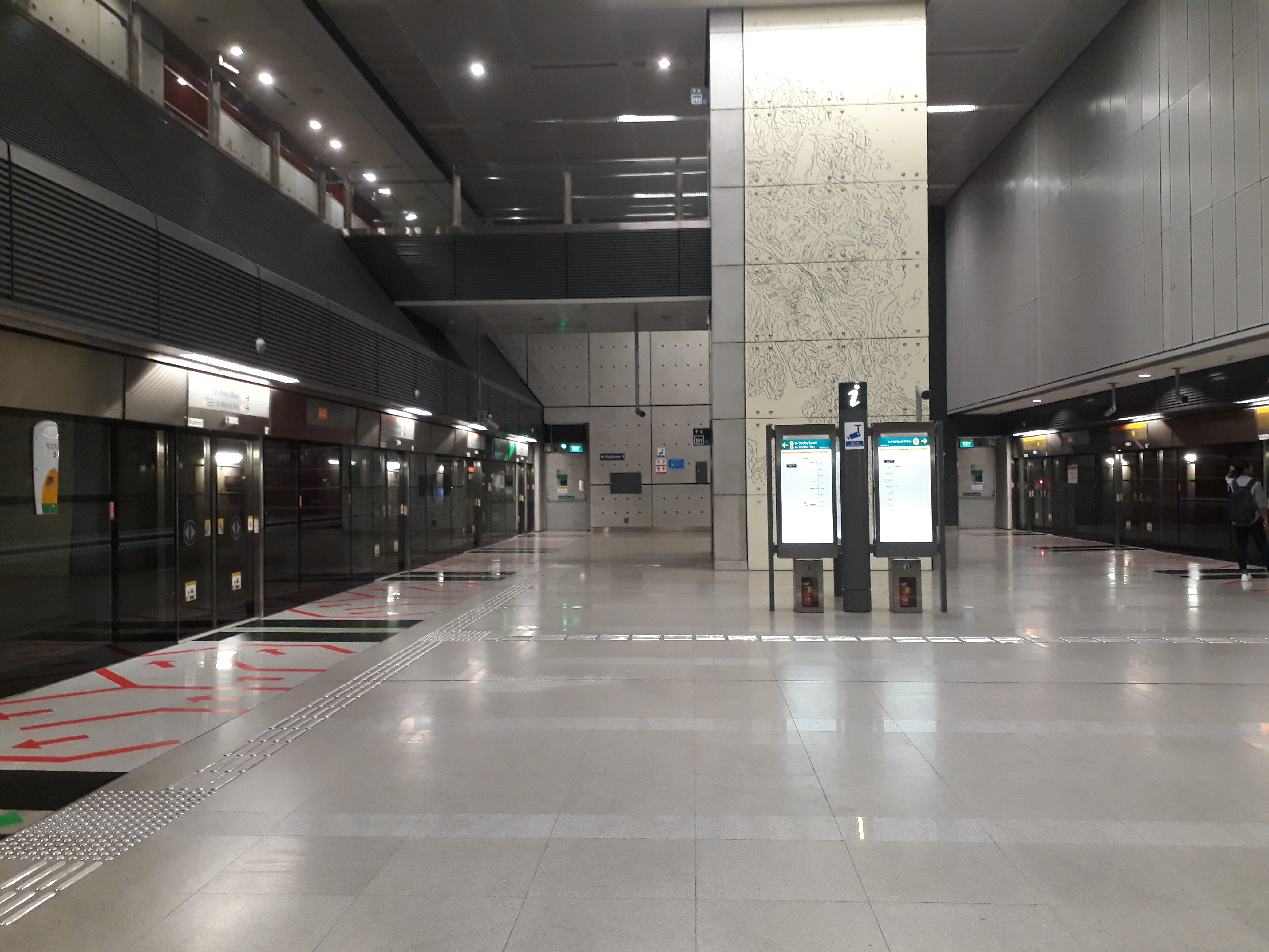 Caldecott MRT Station-Platform Level